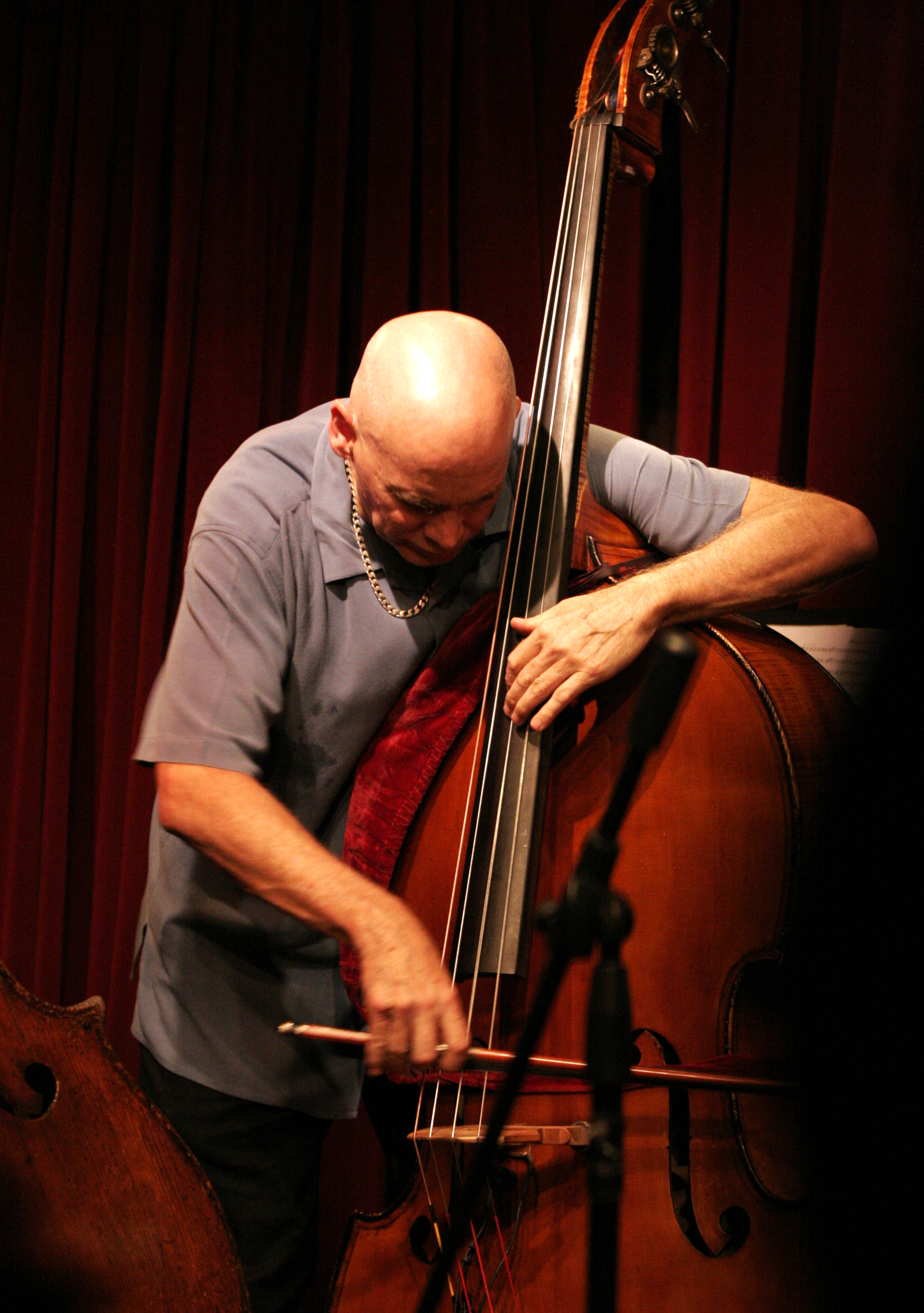 Mark Helias at Cornelia street cafe Pnoto: Claire Stefani